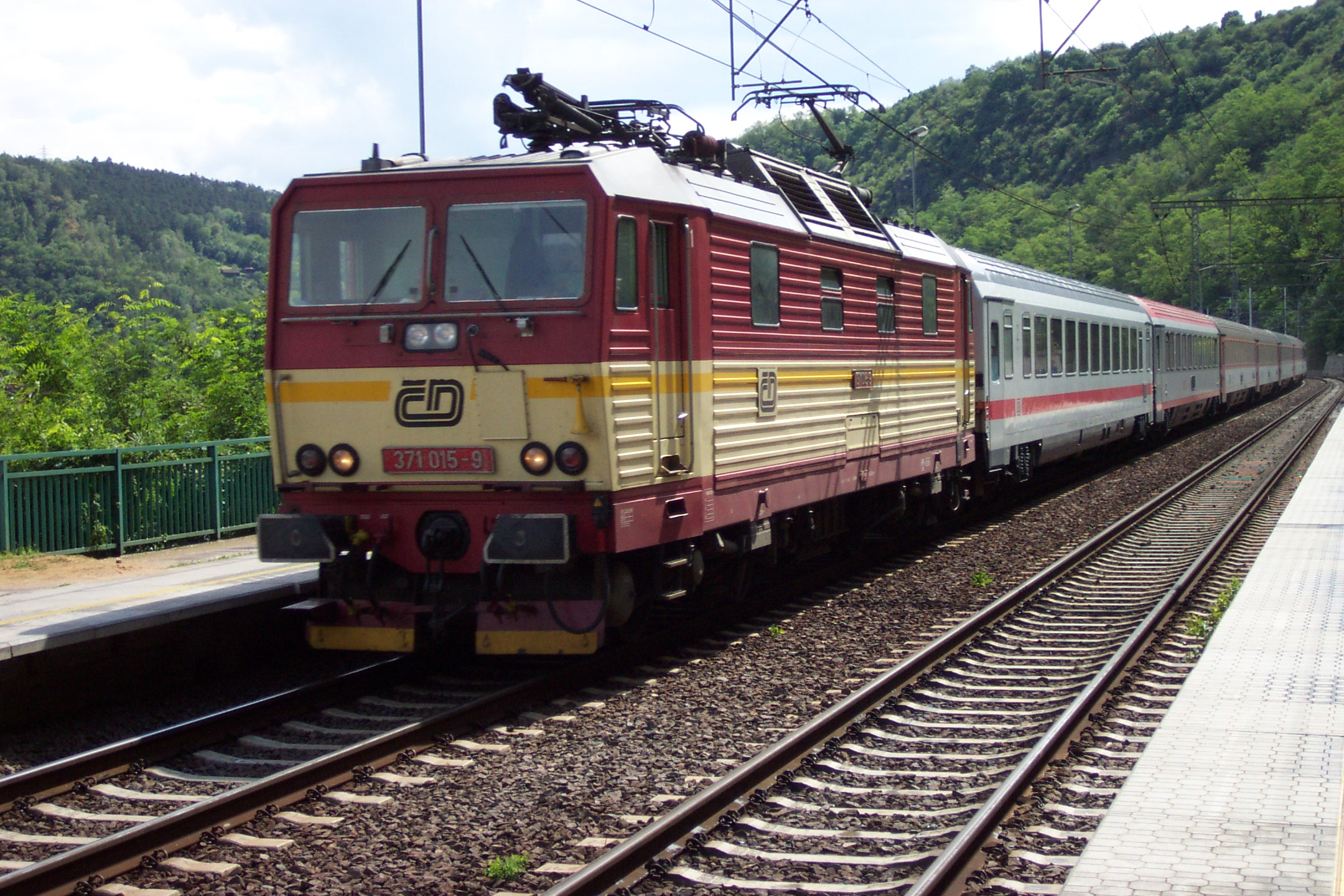 A train passing through Řež u Prahy station; the locomotive is Czech, the other cars are german and austrian